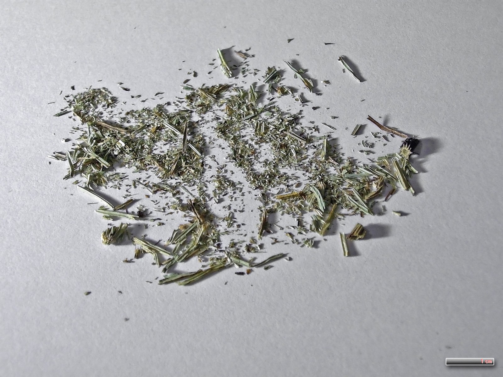 dried Equisetum arvense (pronounced /ˌɛkwɨˈsiːtəm/) (horsetail)